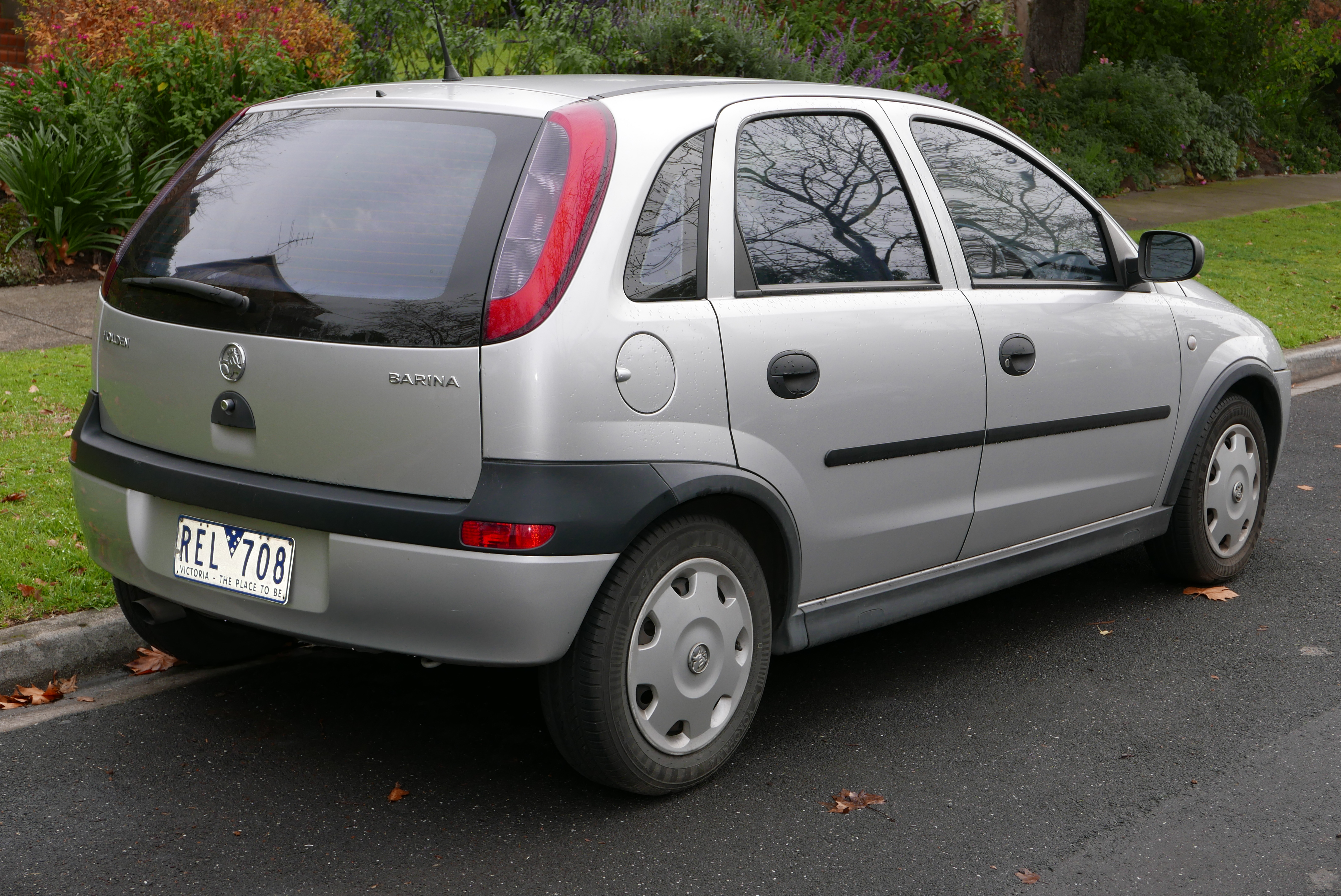 2001 Holden Barina (XC) 5-door hatchback. Photographed in Ivanhoe, Victoria, Australia. Vehicle registration enquiry resultsJurisdictionVictoriaRegistrationREL708Chassis codeW0L0XCF6814276386Engine codeZ14XE20U84447Compliance date2001-08Year of manufacture2001